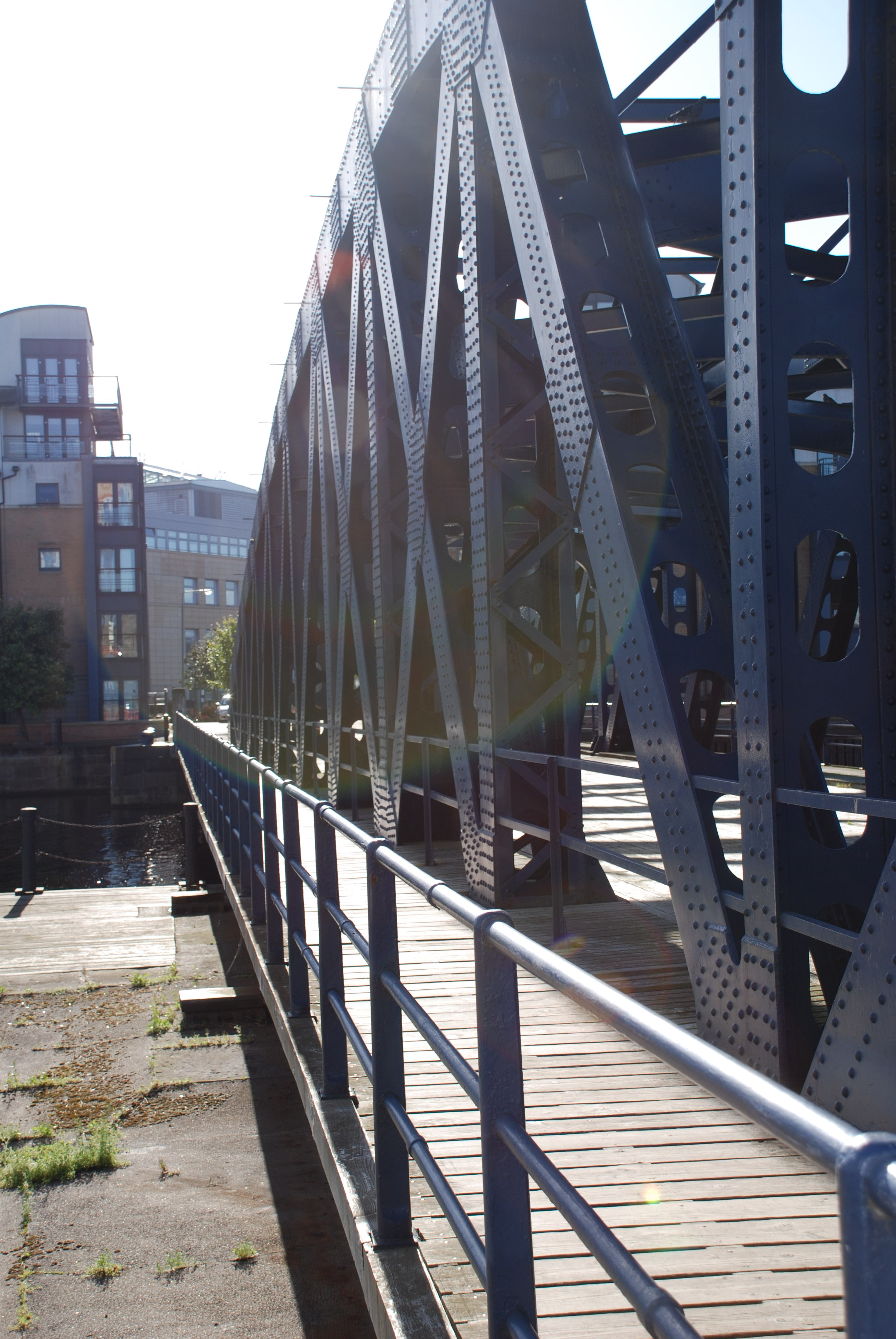 Victoria Swing Bridge, Leith Docks Sept 2007